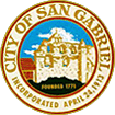 Official seal of the city of San Gabriel, California